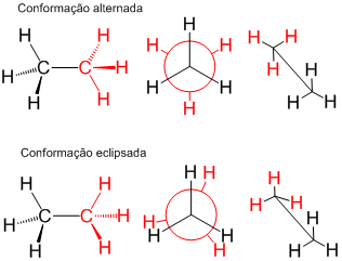 Conformações alternadas e eclipsadas empregando diferentes formulas de projeção